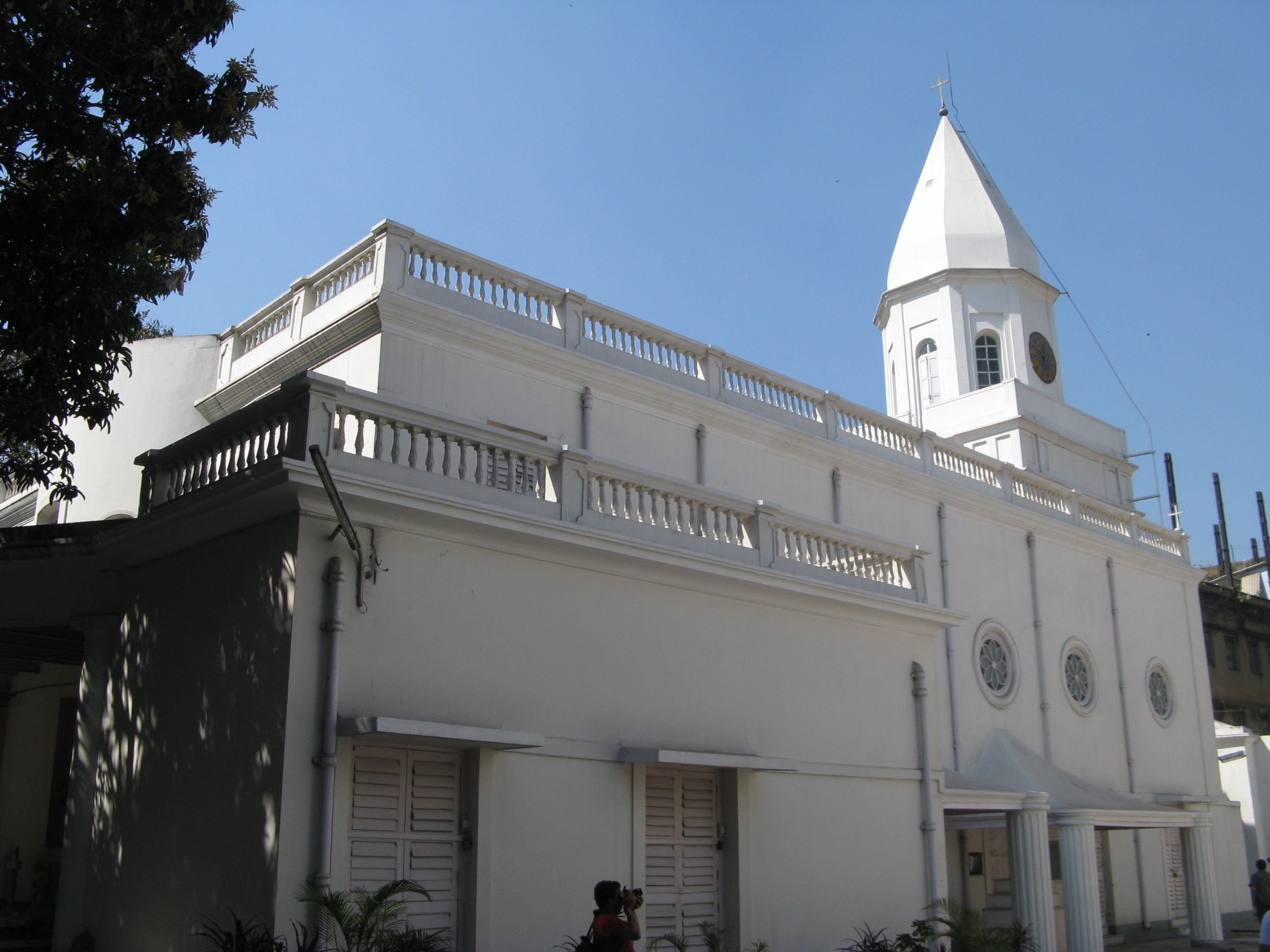 The Armenian Church of Calcutta (Kolkata) built in 1724 has the distinction of being the oldest church in Calcutta (Kolkata)..The Armenian Church of Calcutta (Kolkata) is surrounded by a graveyard contain a large number of graves.